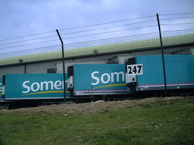 RDC Somerfield Bridgwater